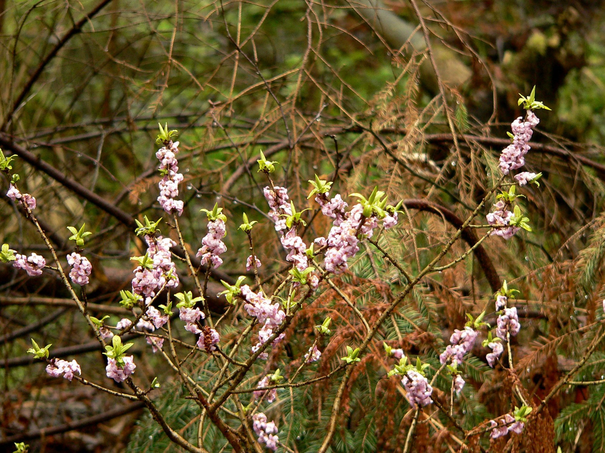 Daphne mezereum in Puszcza Osiecka